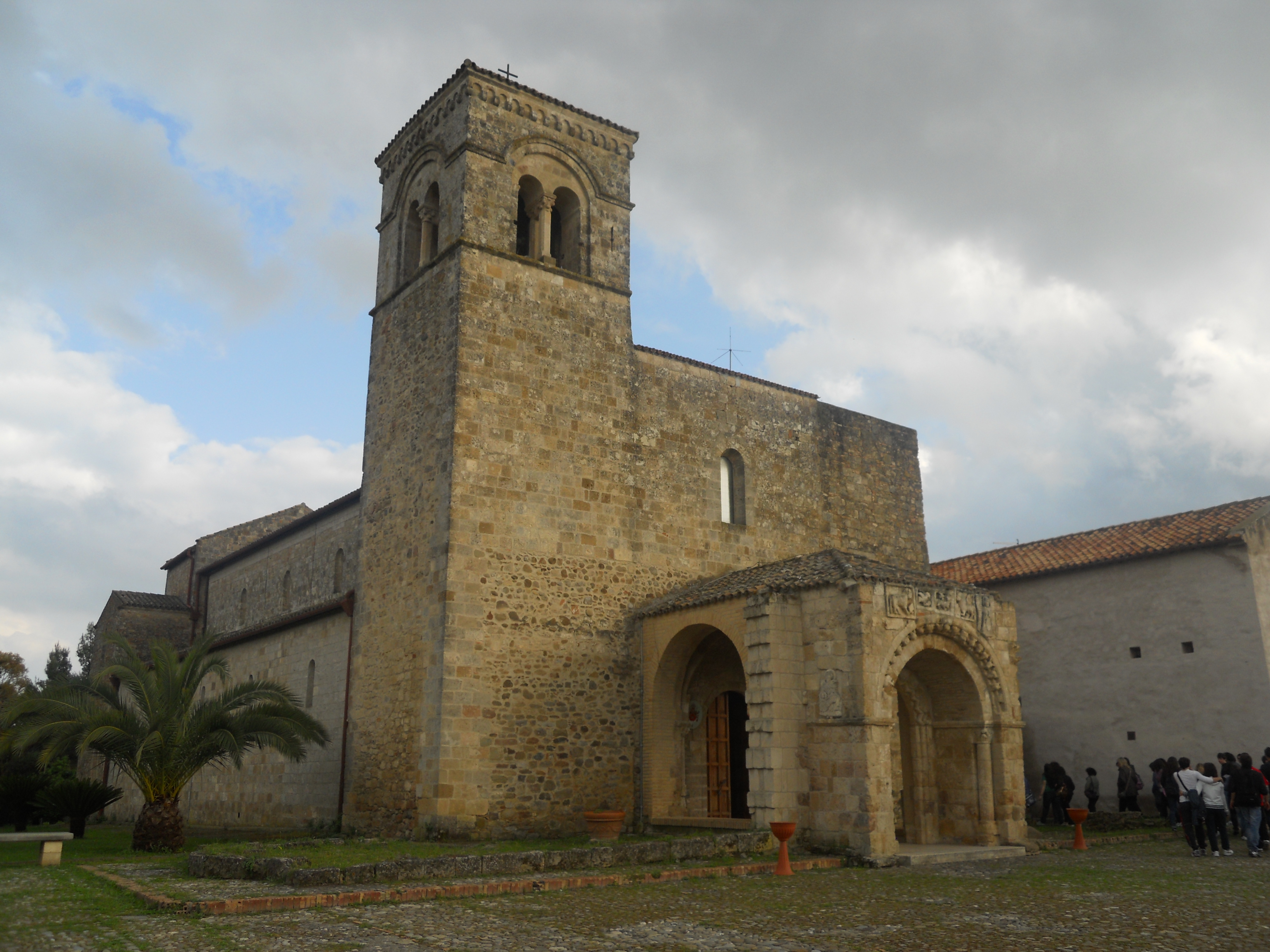 Facade and left side of Basilica di Anglona, Basilicata, Italy